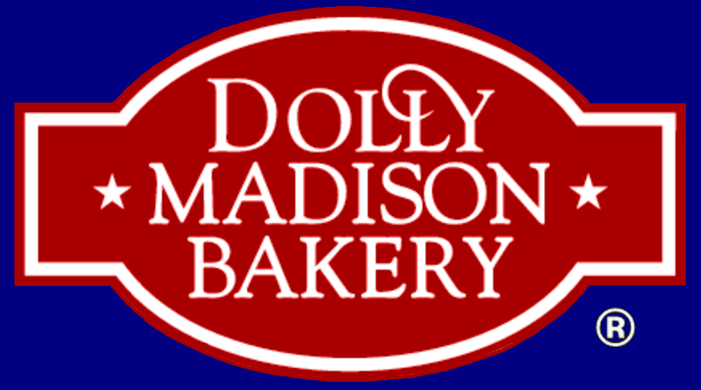 Official logo used for the Dolly Madison bakery outlet stores from the mid 1980's through 2012, when production ceased due to the bankruptcy liquidation plans of its parent company, Hostess Brands, Inc. in November 2012.